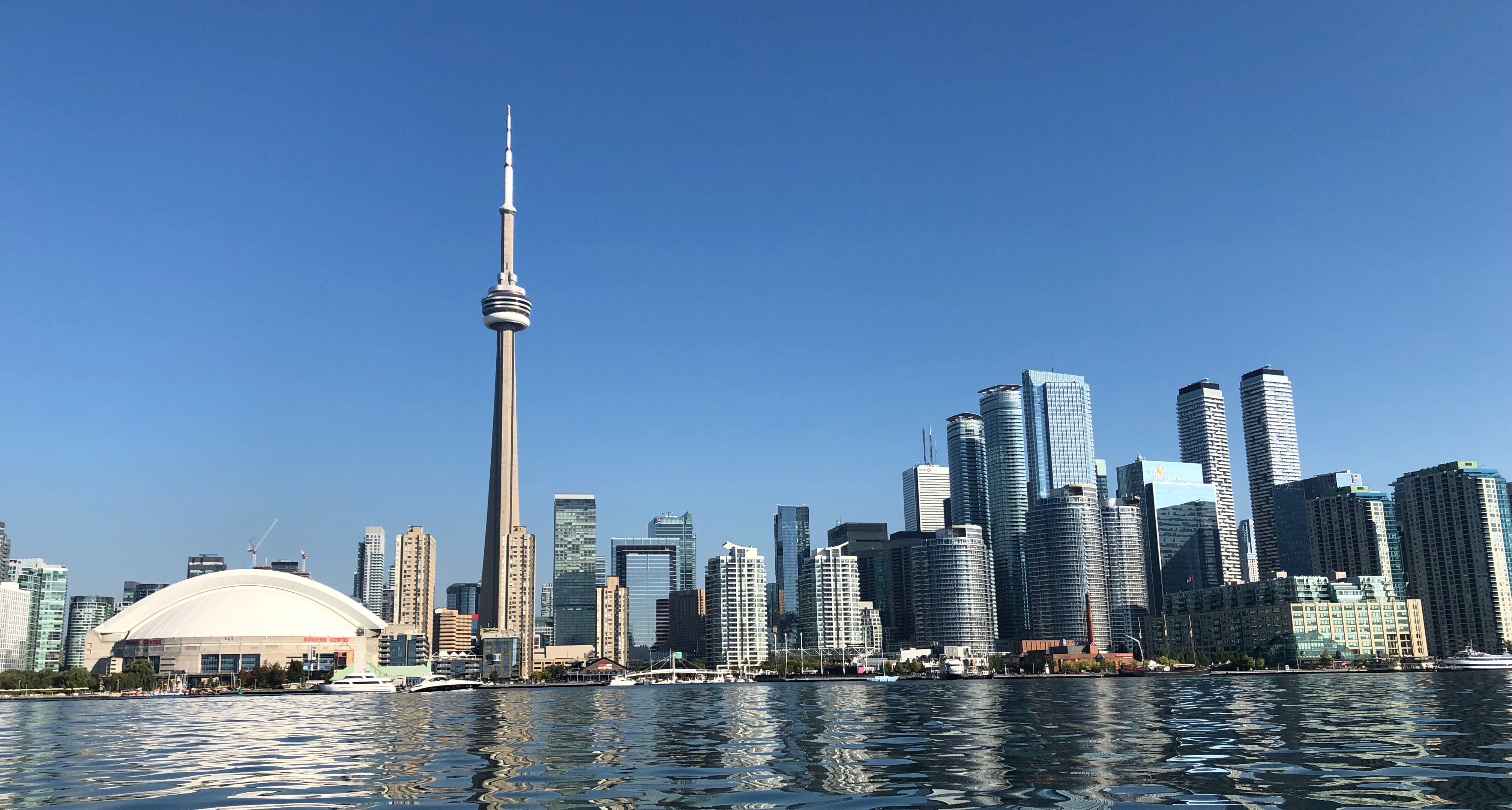 Downtown Toronto in September 2018 (Early Sunday morning, view from a kayak)